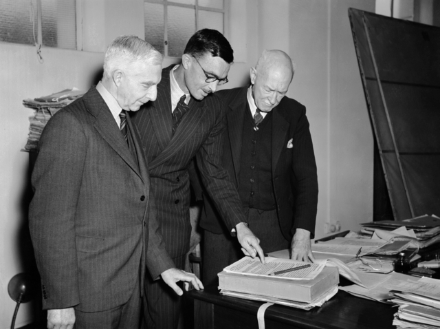 Colonel A G Butler, Gavin Long and Colonel A S Walker, Australian Official Historians at the Australian War Memorial in Canberra